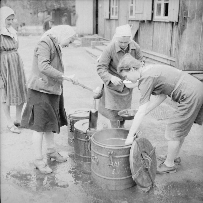 Germany Under Allied Occupation Russian women take advantage of the unlimited supply of coffee available to displaced persons at No.17 Displaced Persons Assembly Centre, Hamburg Zoological Gardens.